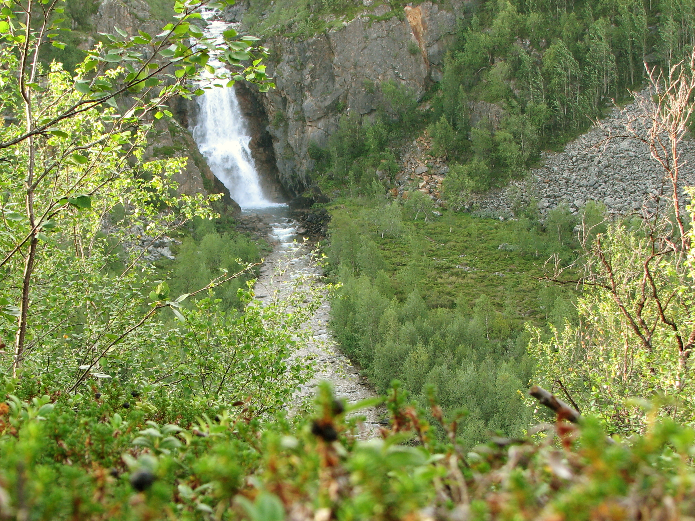 Fjellu watefall in Kevo strict nature reserver, Utsjoki, Finland.